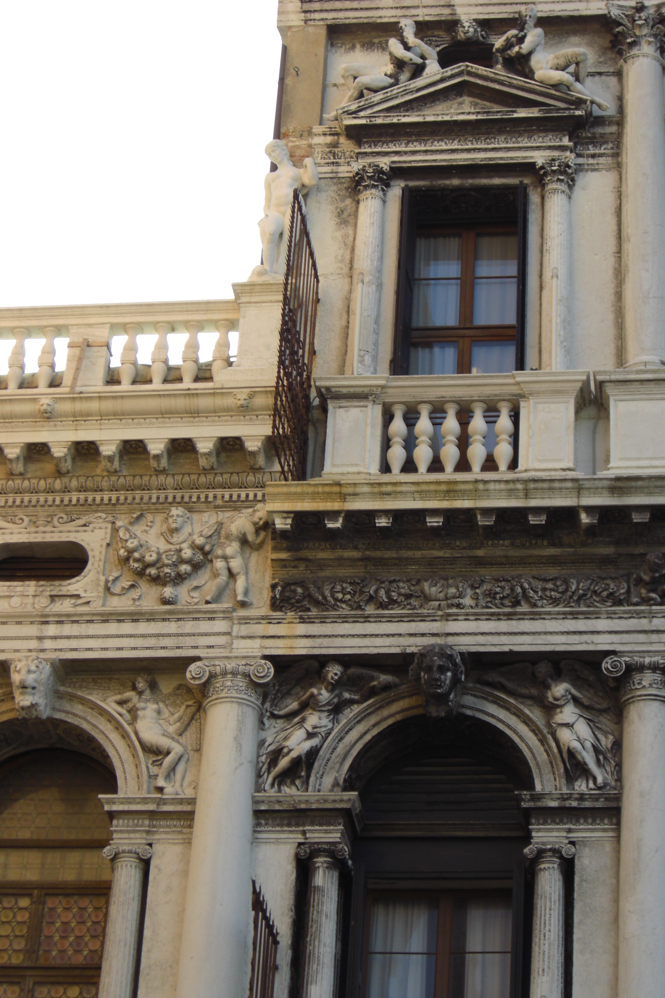 Juncture between the Biblioteca Marciana and the Procuratie Nuove, showing Scamozzi's shorter frieze.